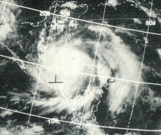 This ESSA 9 weather satellite image of Hurricane Francelia was taken on September 2, 1969 at 2010 UTC